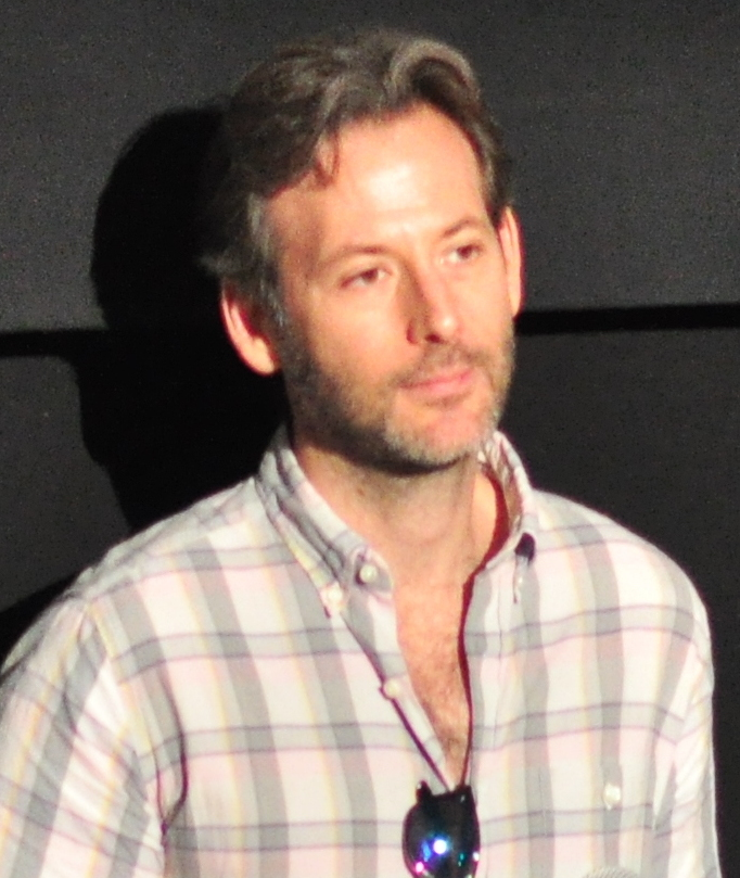 Jeff Baena attending a showing of The Little Hours at SIFF Cinema Uptown during the Seattle International Film Festival, Seattle, Washington, U.S.